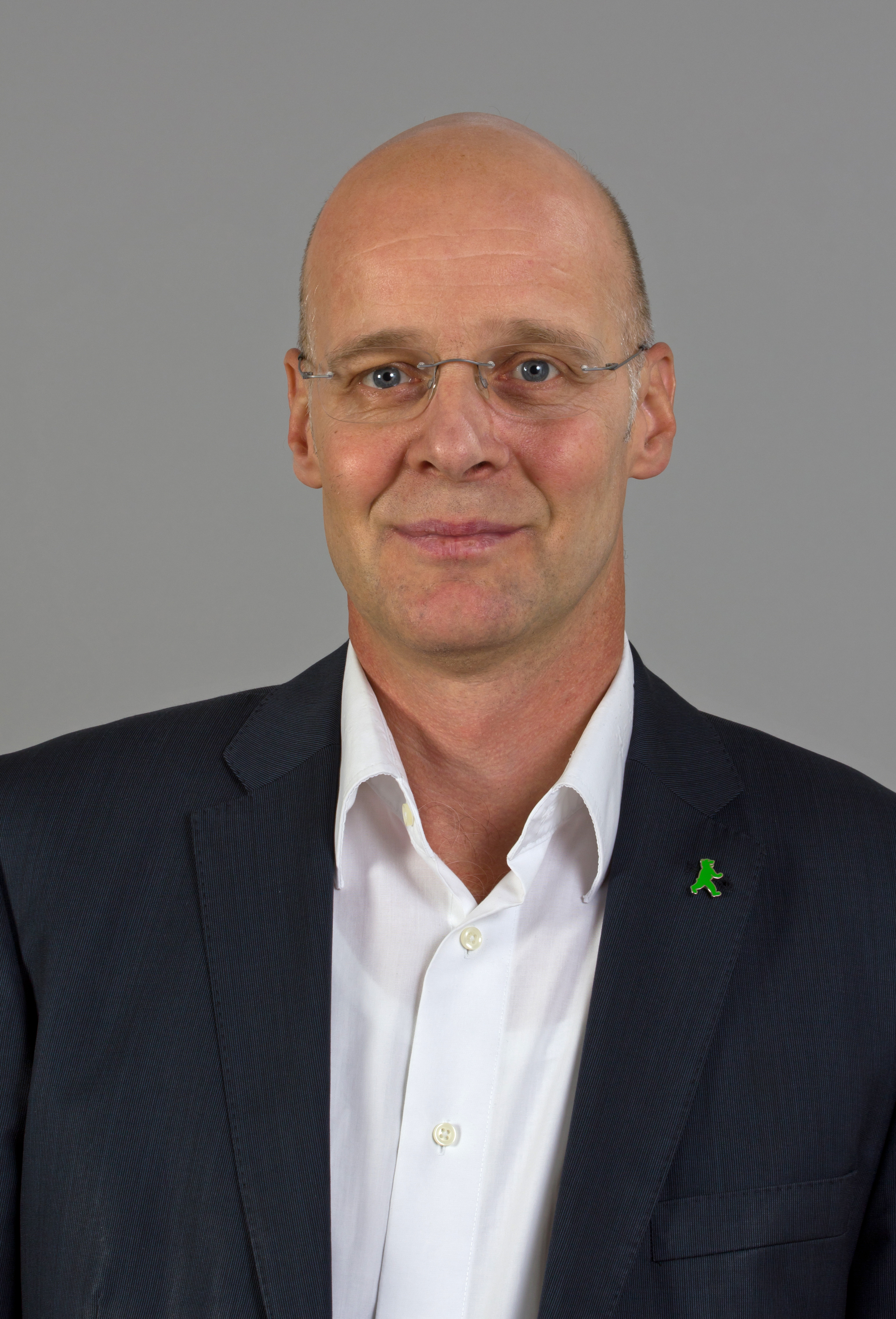 Thomas Birk, politician from Germany, member of Abgeordnetenhaus of Berlin (as of 2013)